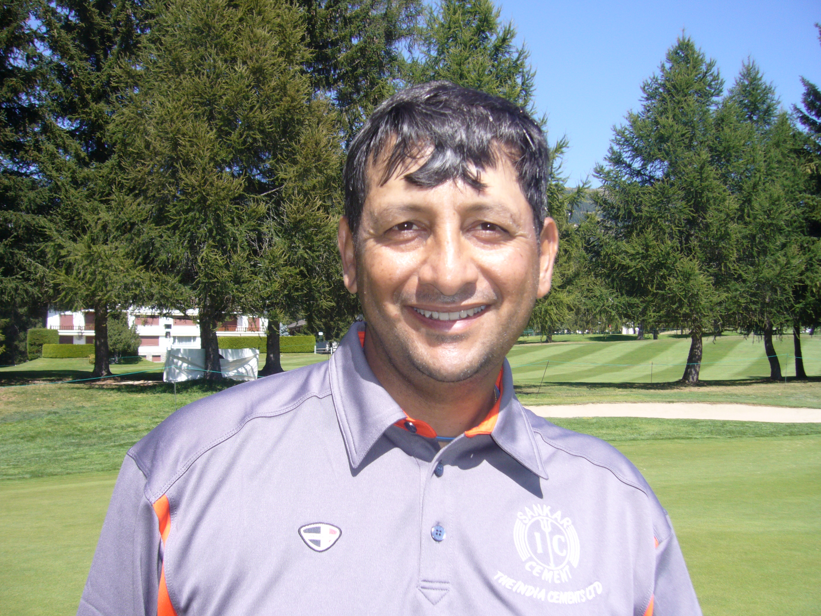 Ghei Gaurav, professional golfer from India